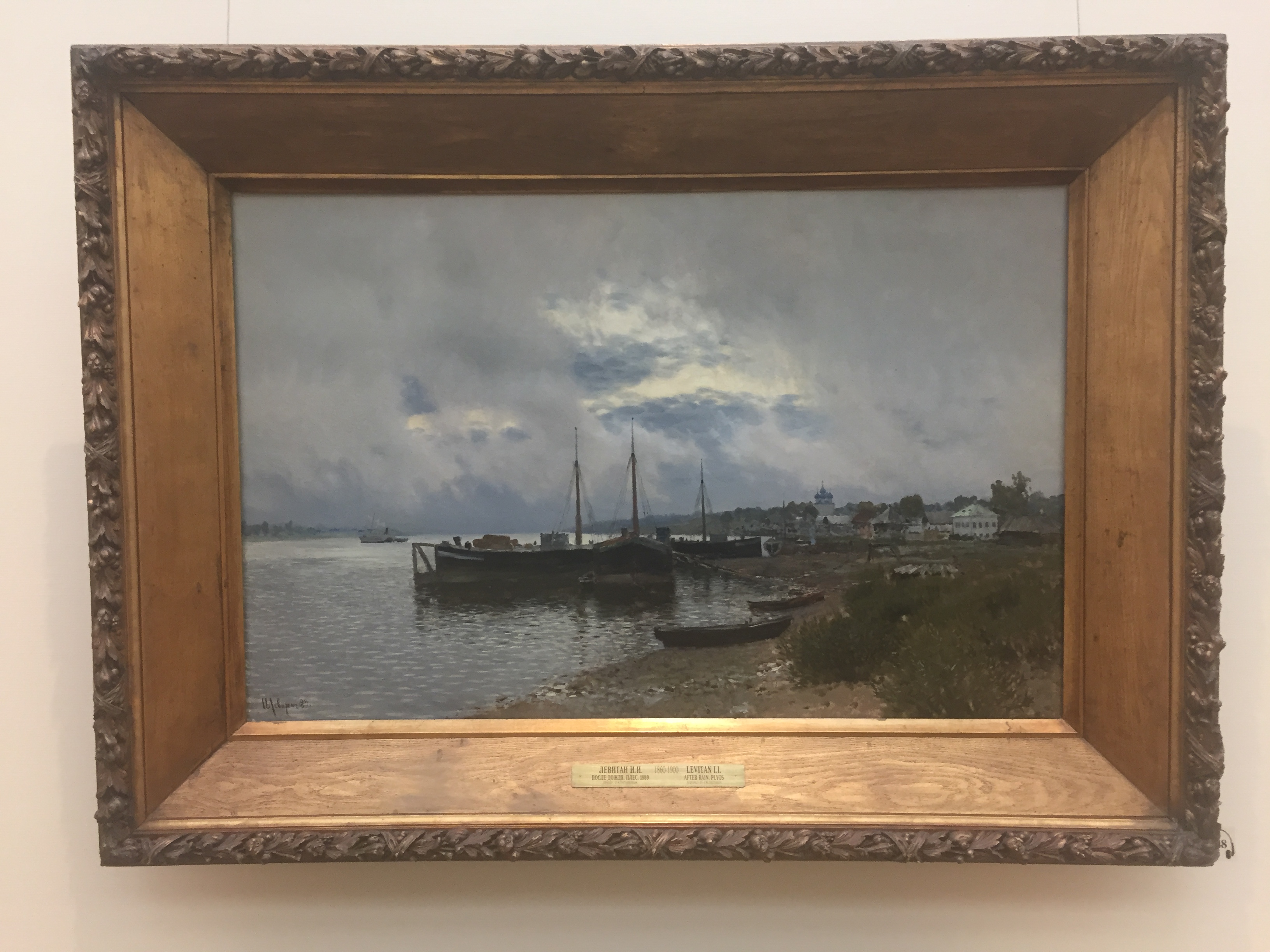 "After the rain. Plyos" (painting by Isaac Levitan, 1890) in the State Tretyakov Gallery